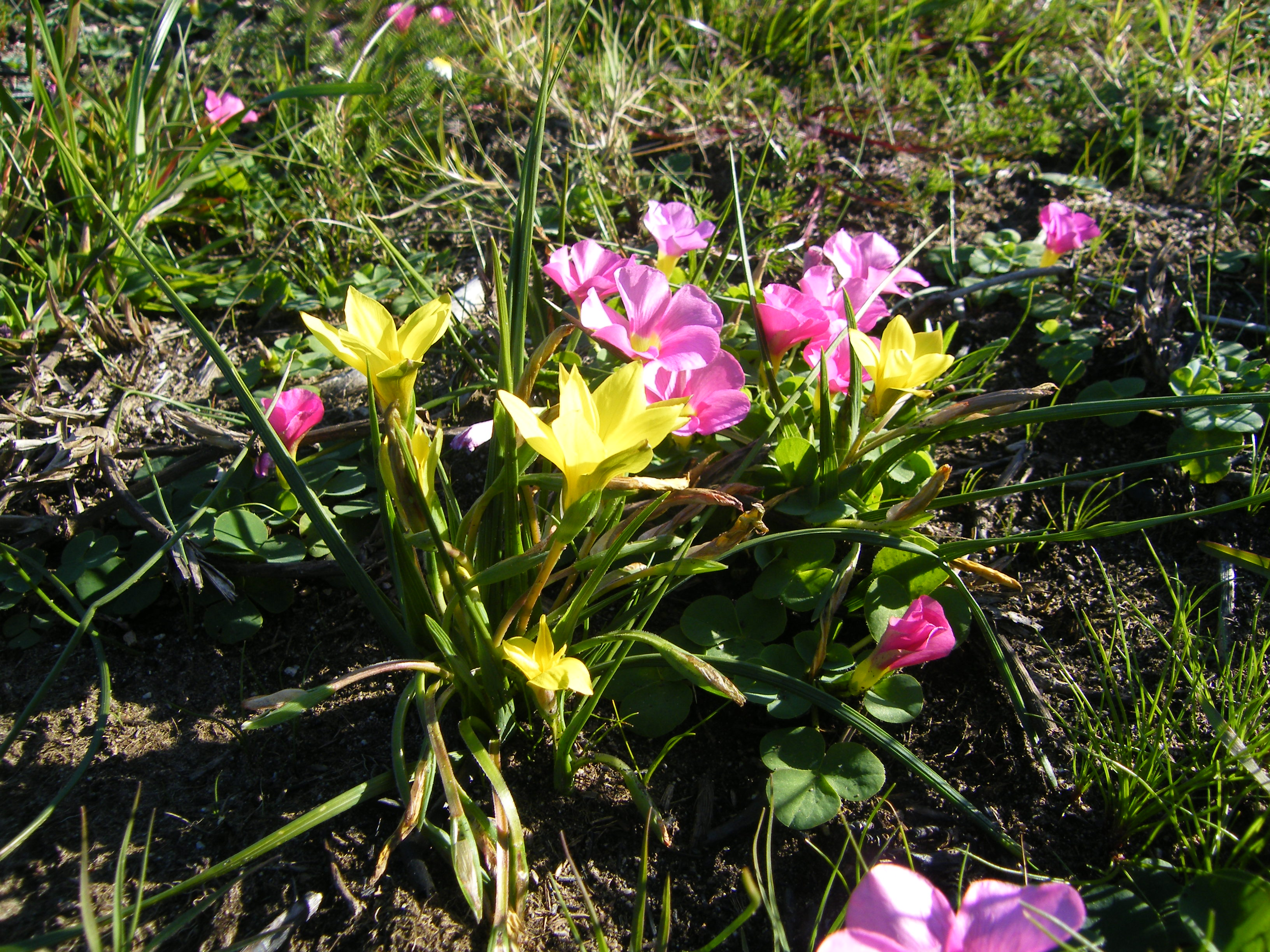 leaf ribbed